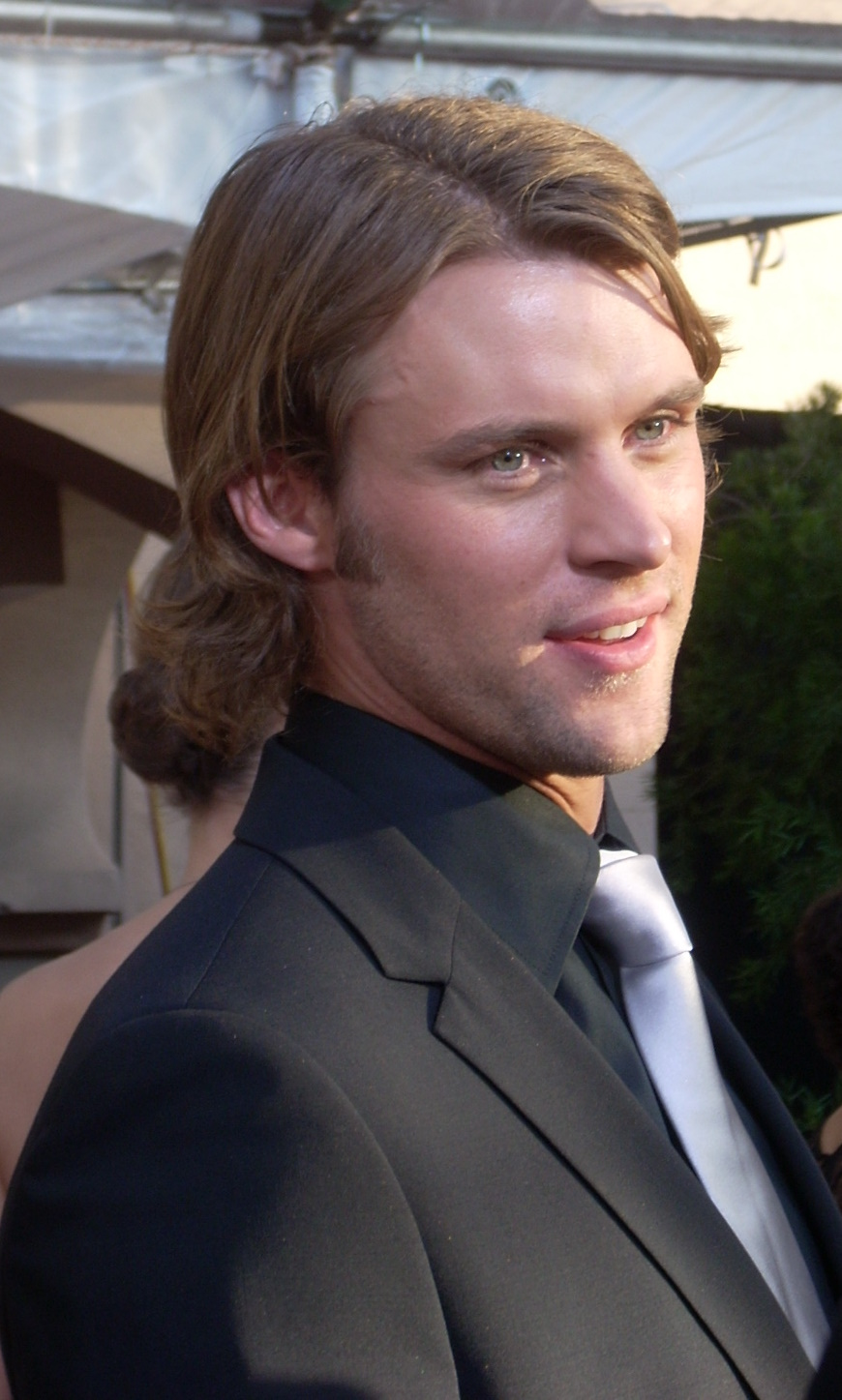 Actor Jesse Spencer at 15th Screen Actors Guild Awards, Shrine Auditorium, Los Angeles.